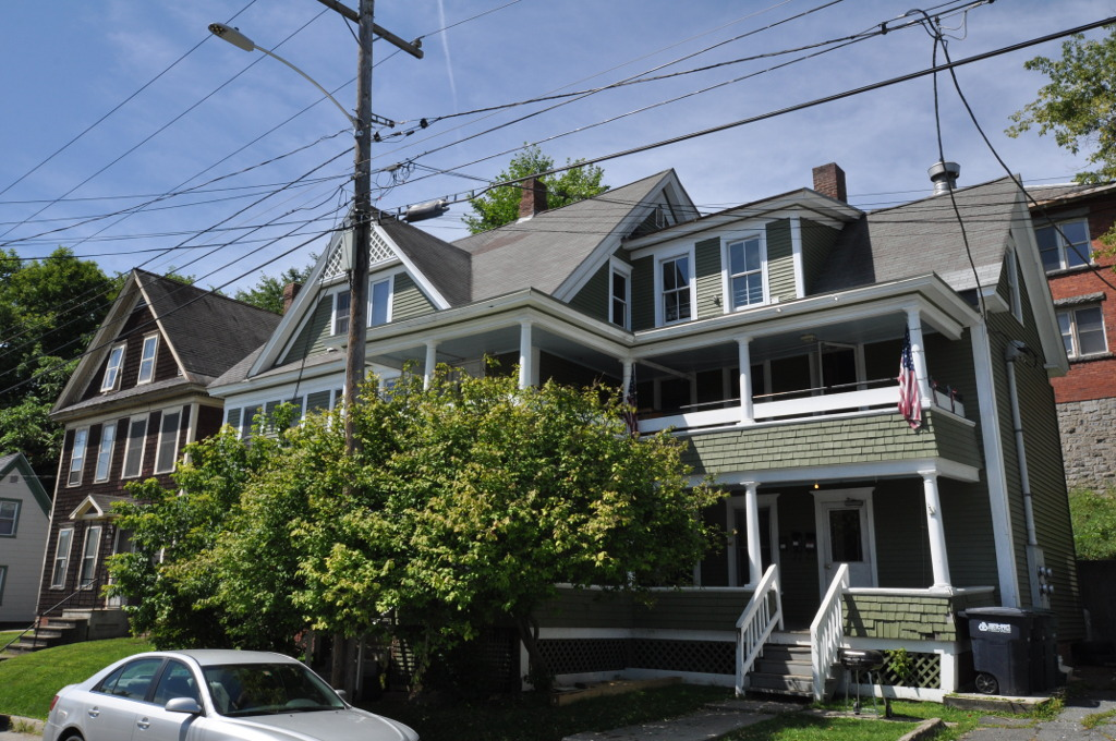 Benoit Apartment House-74 Pearl Street (now 439 Pearl St.), St. Johnsbury, Vermont.